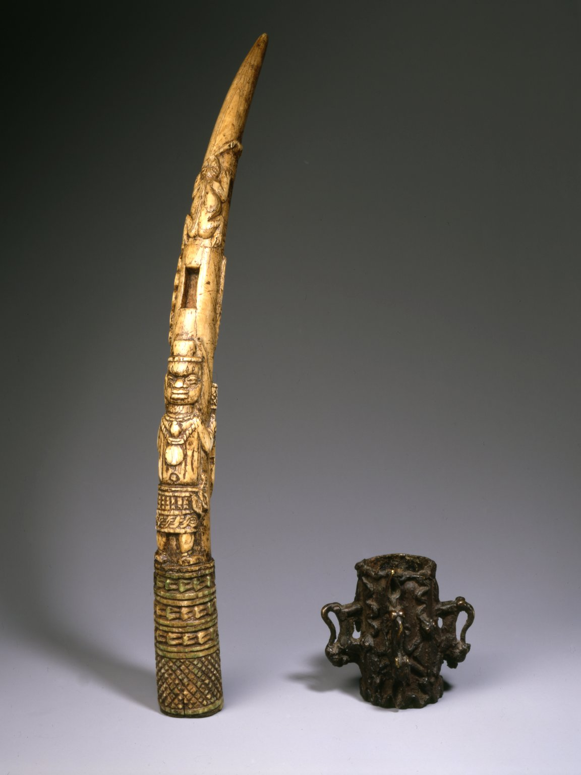 Ivory tusk carved in high relief, encased at the open end in a cast copper alloy collar. There is a rectangular recess in the middle of the convex side of the tusk which has a circular opening at one end. The cast-metal component has high relief, undercut animals on the surface. There are numerous low raised ridges in the metal that connects animals to the borders. The metal is covered in red clay. Condition: The tusk and metal collar are in good condition. The tusk has remnants of a reddish resinous filmy deposit and appears to be coated with wax. The open end interior of the tusk has 2 cracks of an indeterminate length. The metal collar is covered with archaeological corrosion products that are obscured by reddish dirt. The interior has powdery green corrosion products as well as white deposits of an unidentified substance.